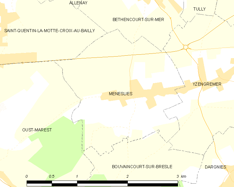 Map of French municipality Méneslies